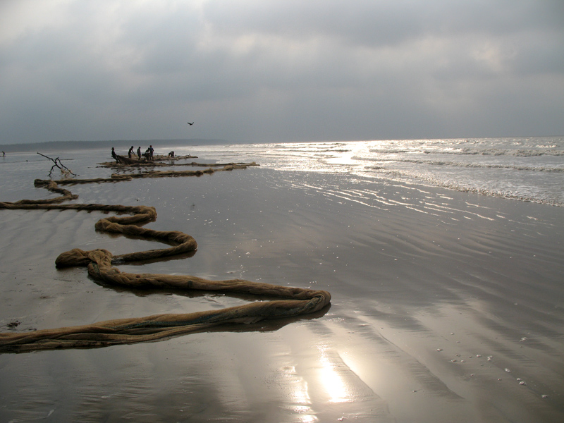 nets in the beach